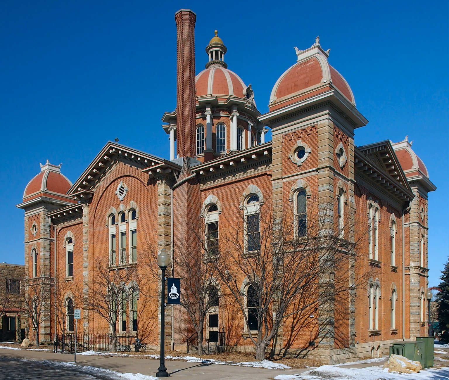 Hastings City Hall (formerly the Dakota County Courthouse), 101 4th St E, Hastings, Minnesota, USA. Viewed from the southeast.